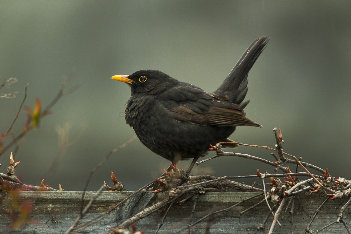 Eurasian Blackbird - Italy_IMG_0096